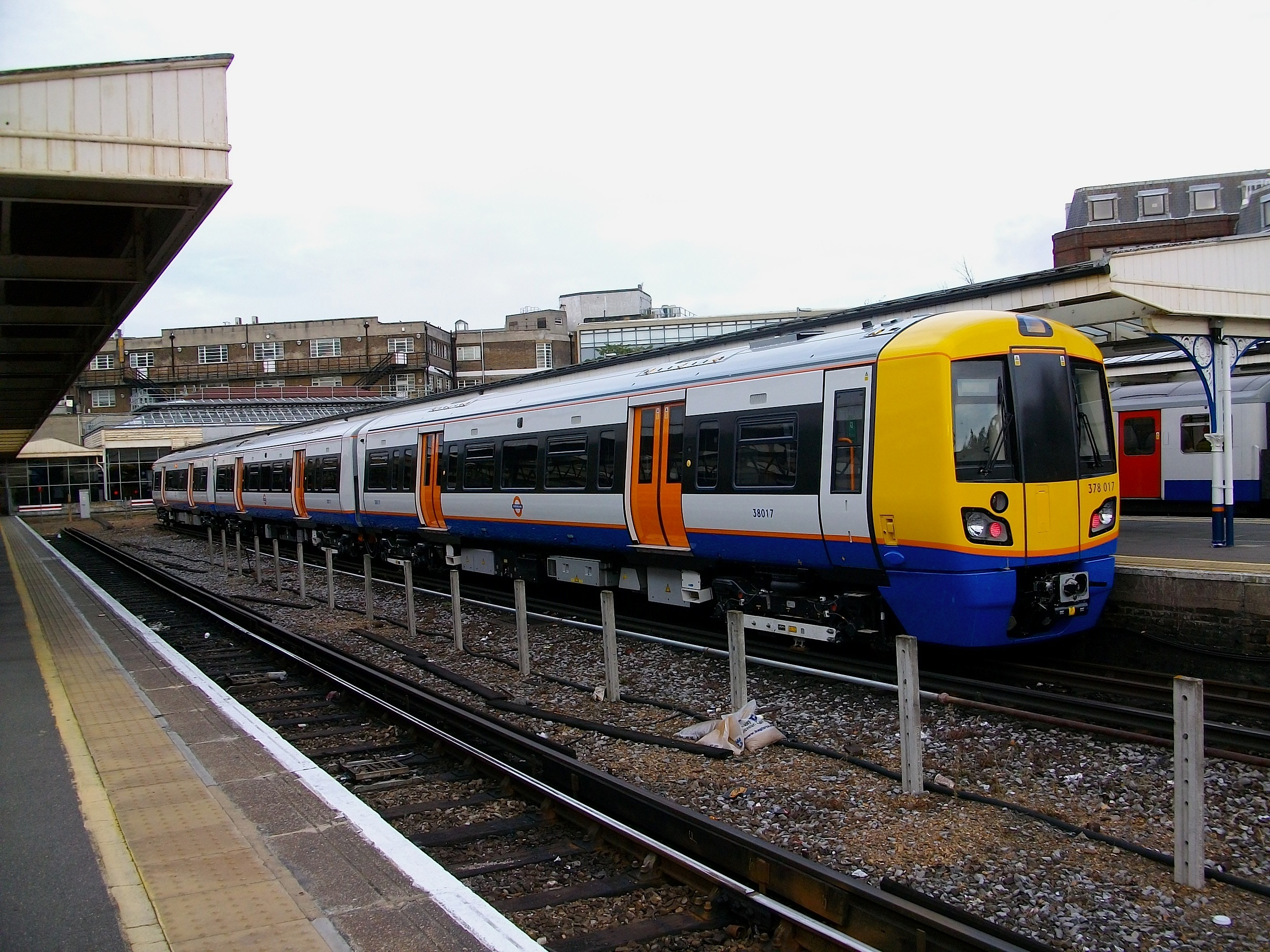 Brand new London Overground Bombardier Class 378/0 Capitalstar EMU No. 378017 at Richmond.